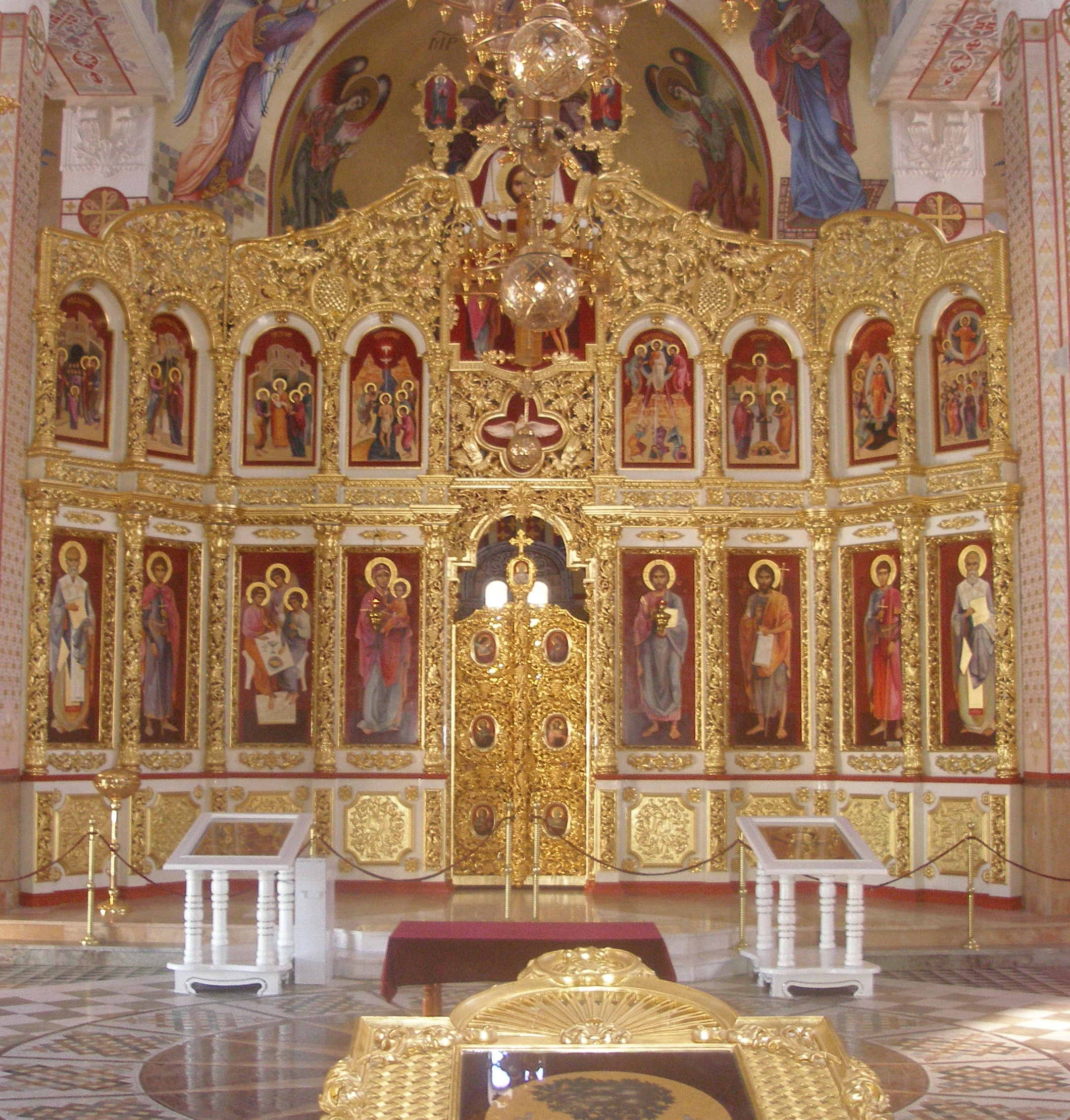 The olthar in Macedonian ortodox church in Radovish (St.Troica), Macedonia. The picture was made in church where i was married.